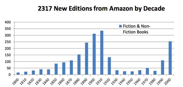 Chart of Availability of Books on Amazon